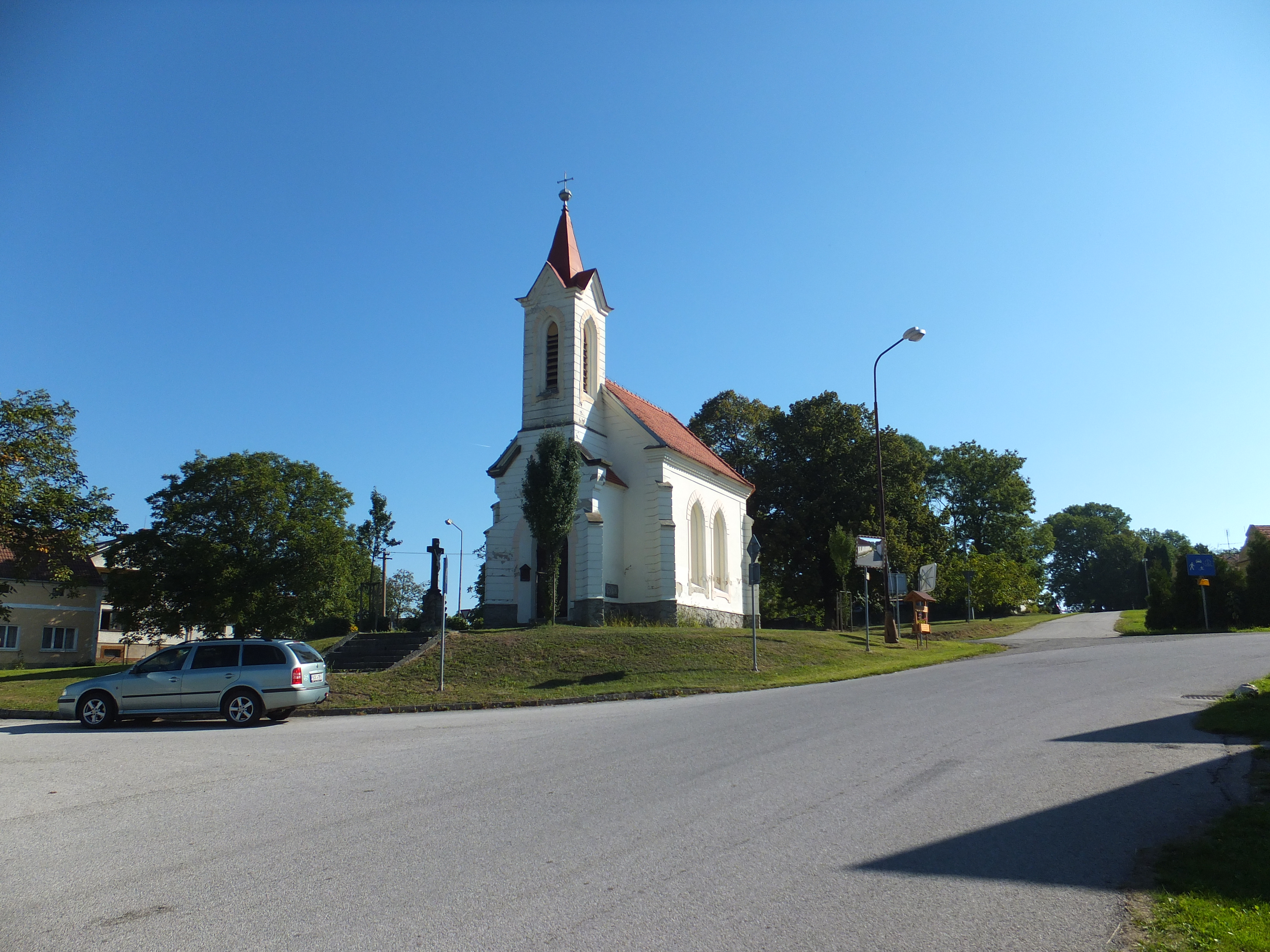 Zaliny, the chapel